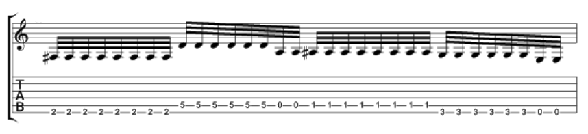 Vader "Carnal" main riff